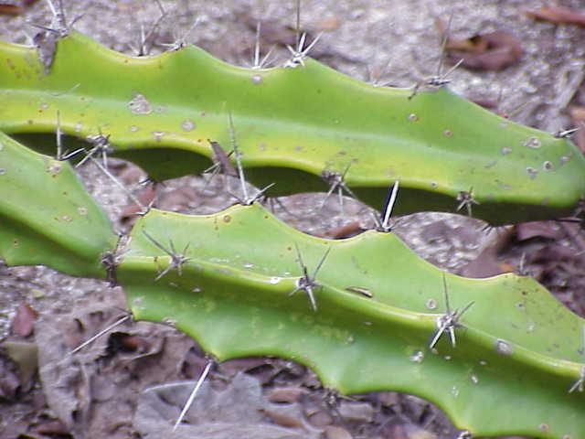 Species: Acanthocereus pentagonus Family: Cactaceae Image No. 2